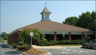 Cabarrus County Library - Mt Pleasant NC Location